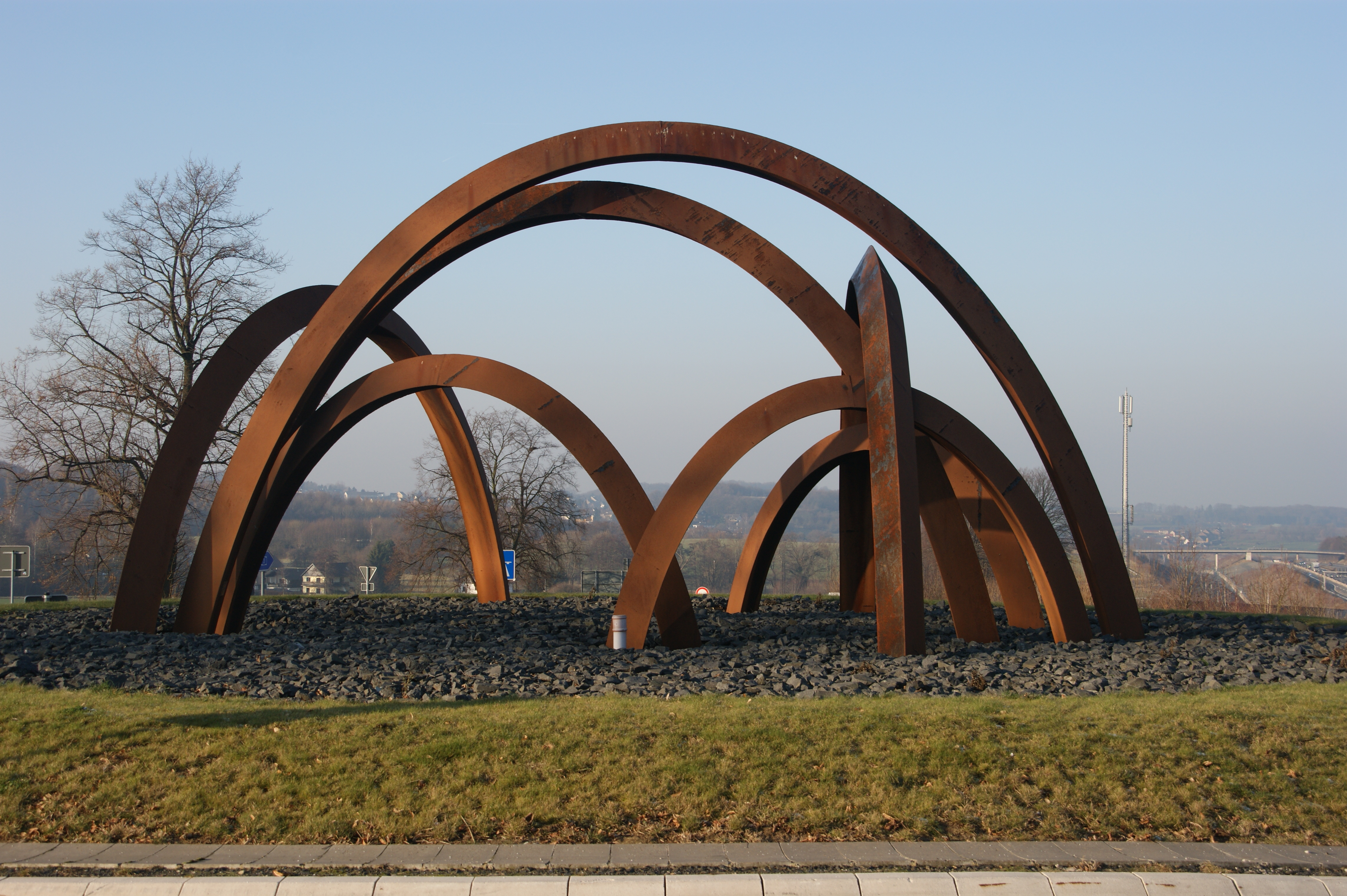 Metal sculpture Tor zum Siebengebirge (2006) in a roundabout in Königswinter-Ittenbach.